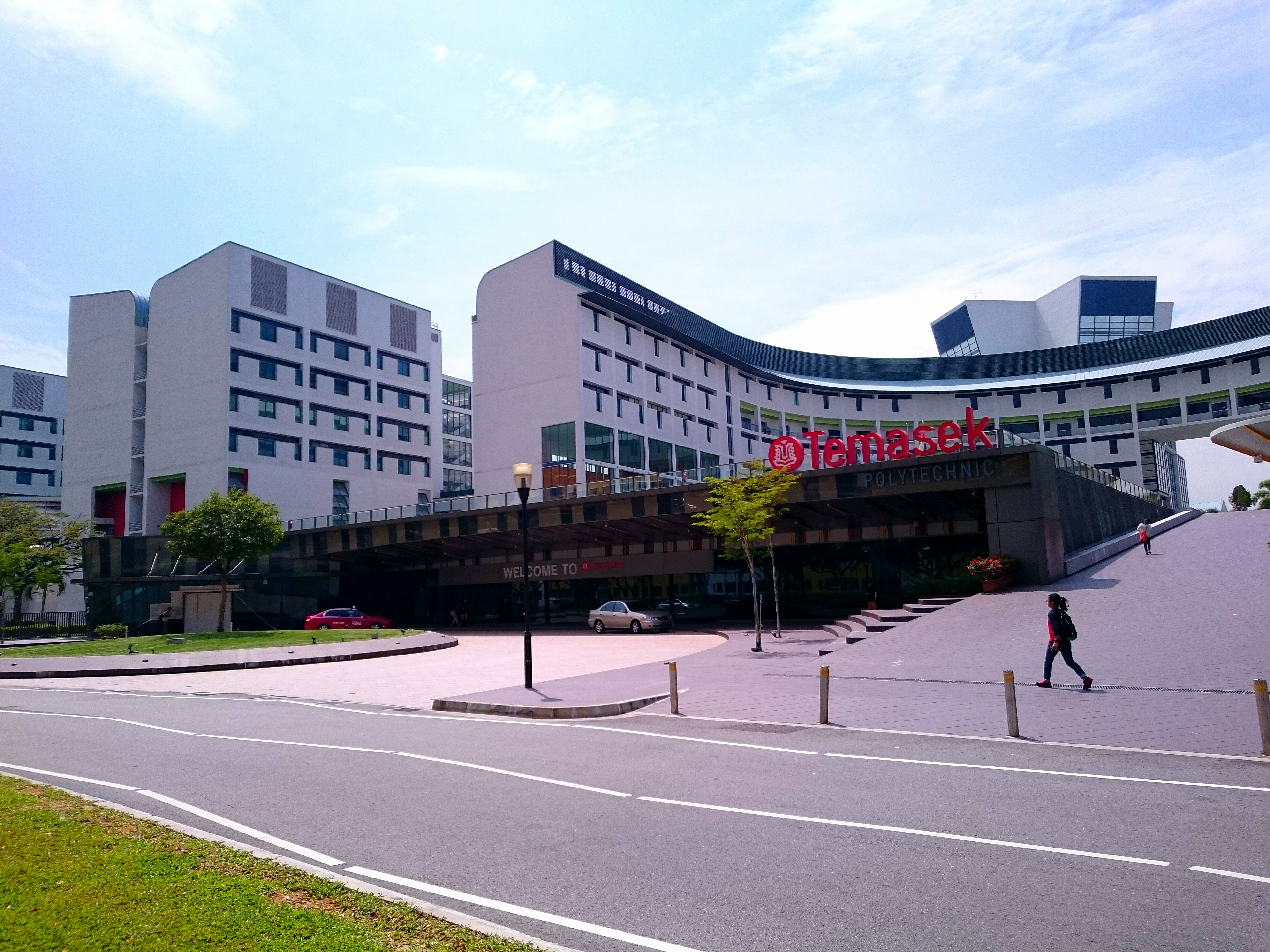 Main Entrance of Temasek Polytechnic, Shot with Xperia Z3.